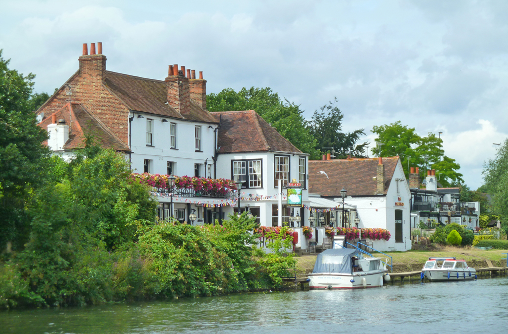 The Swan Hotel on the River Thames at Egham Hythe, Surrey, seen from the east